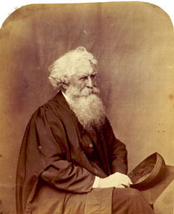 Thomas Combe, 30 June 1860